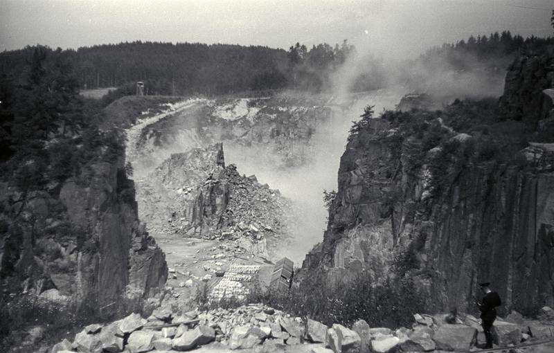 Information added by Wikimedia users. English (rough summary translation): KZ (abbr. for German word for concentration camp) Mauthausen, explosion in stone quarry "Vienna Diggings"